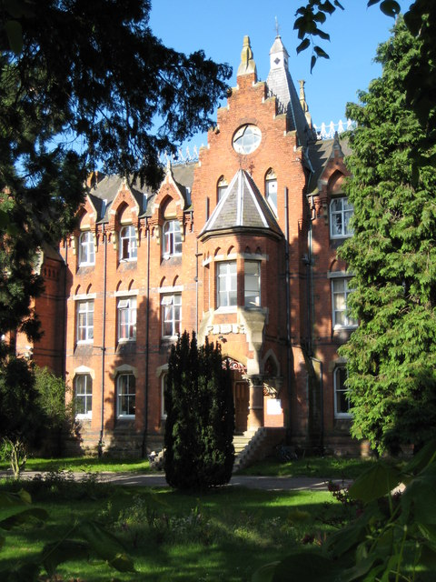 YMCA Worcester Worcester's YMCA stands on Henwick Road and is a large Victorian building.